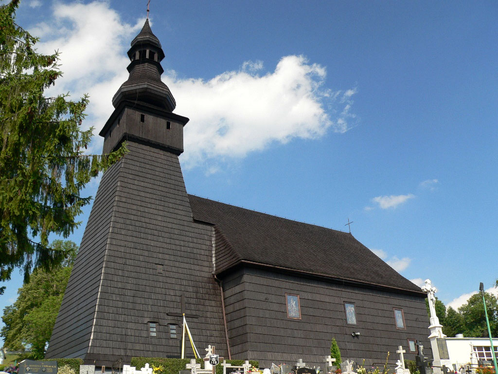 Saint Michael the Archangel wooden church in Kończyce Wielkie, Poland.